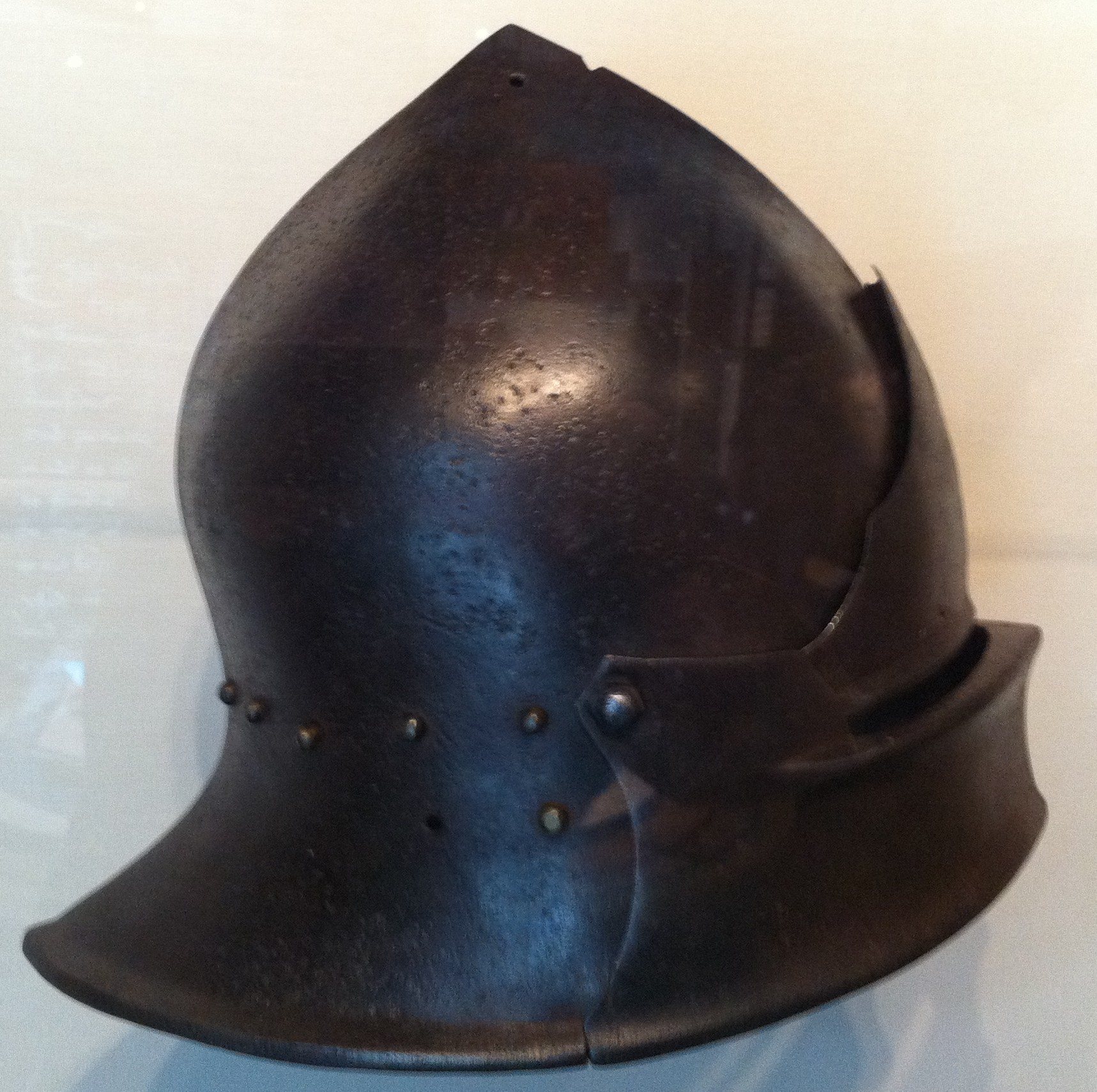 Coventry Sallet, a 15th century helmet